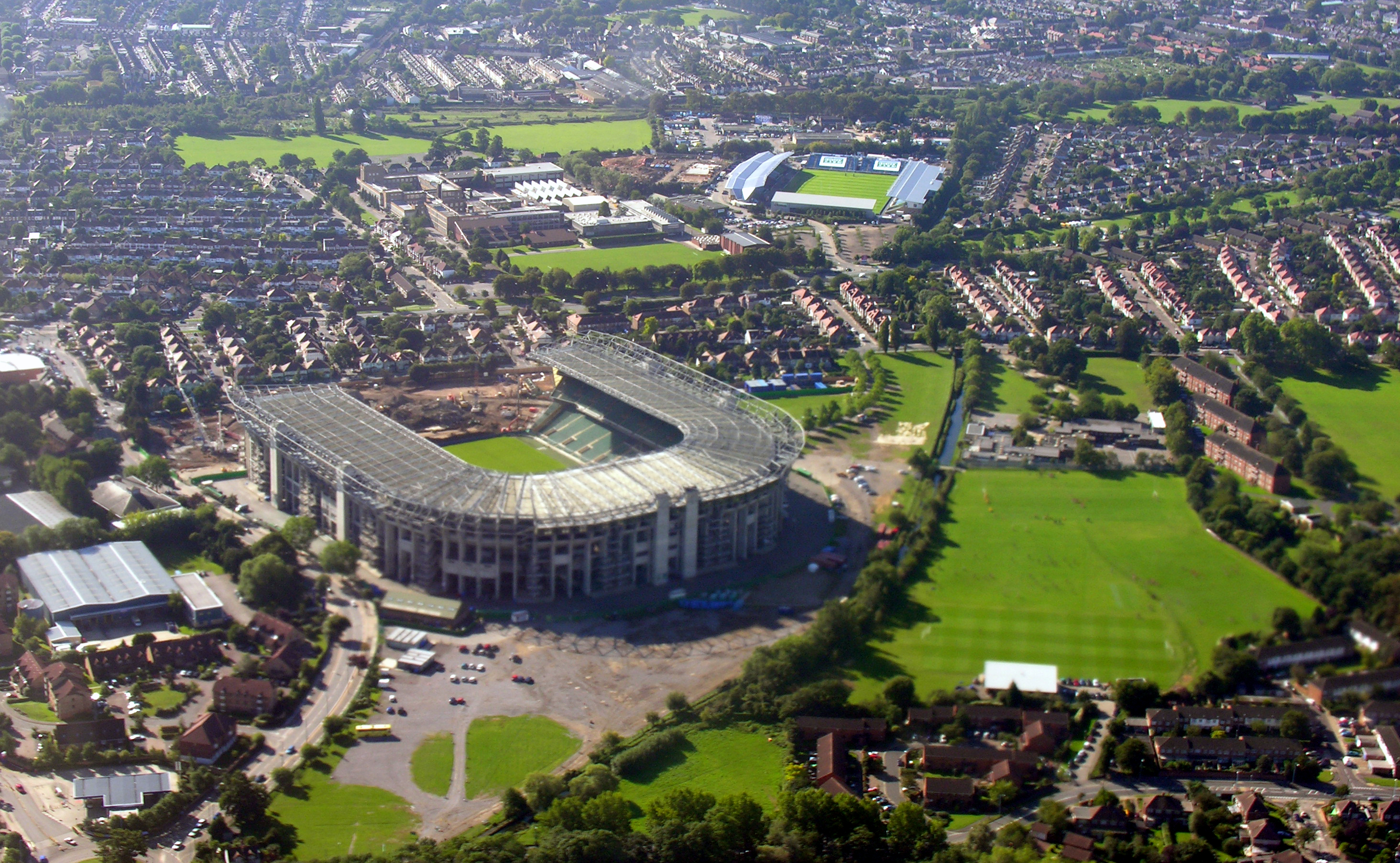 Twickenham, 2005. (South Stand being upgraded at time).